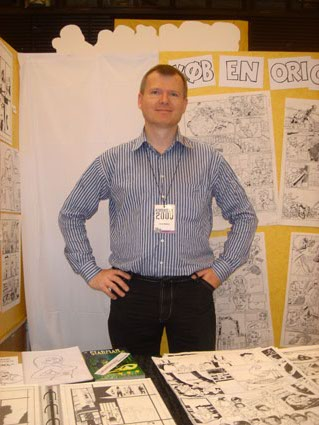 Frank Madsen, at the Komiks.dk 2006 comics festival in København, Denmark.